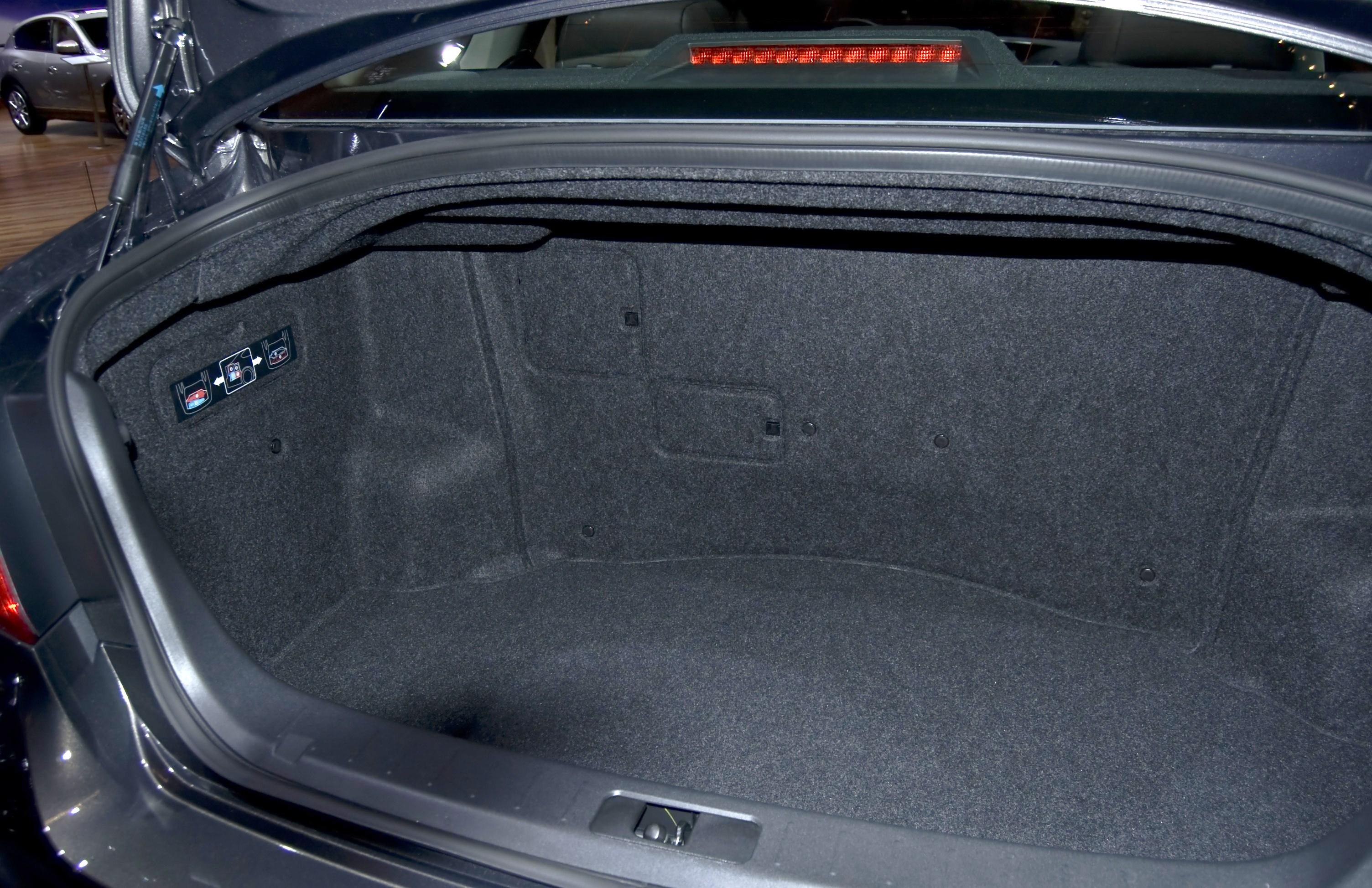 Infiniti M35 Hybrid trunk.